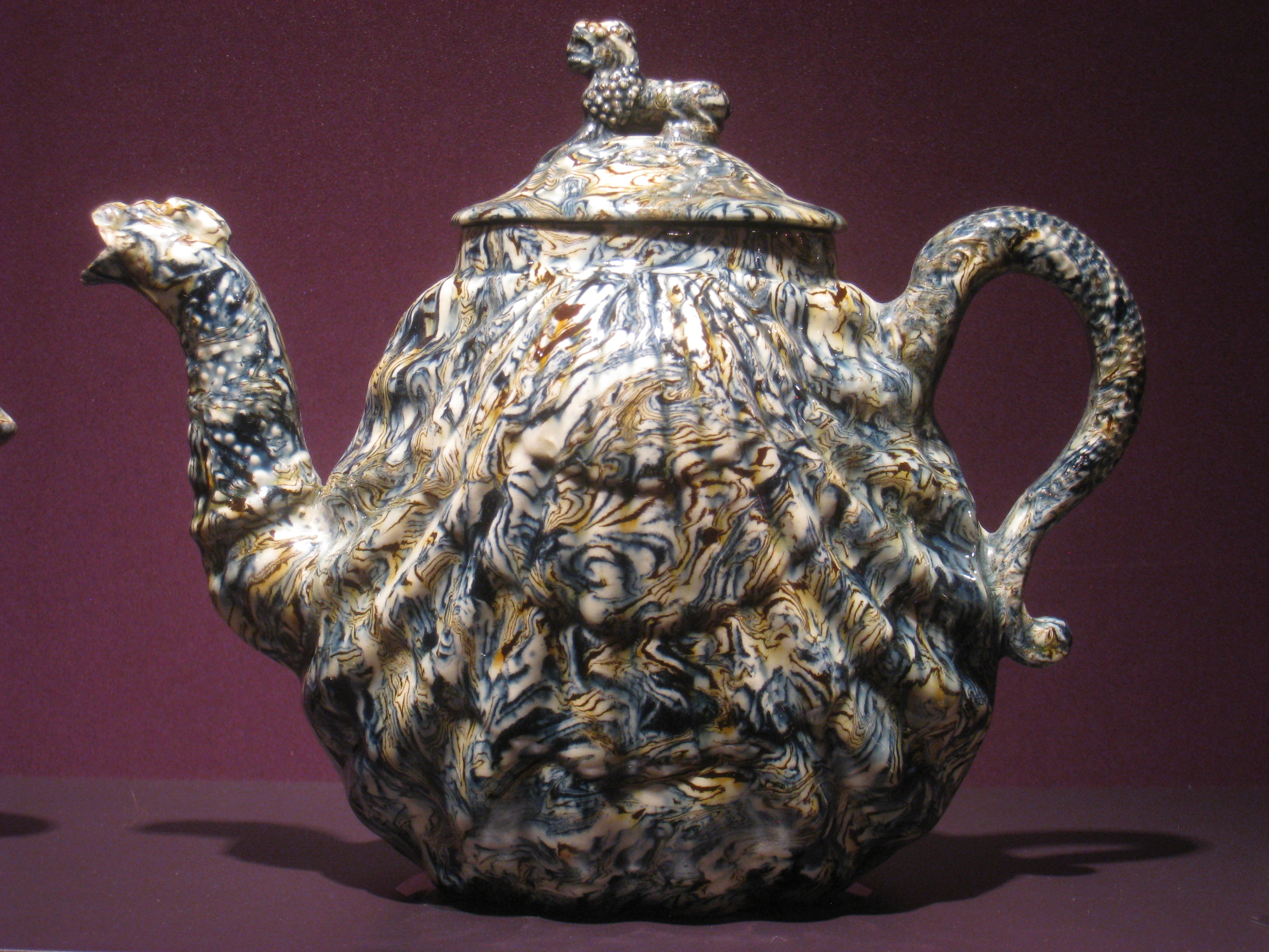 Teapot, agateware; Staffordshire, 1745-1750. Pottery exhibited in the DAR Museum, National Society Daughters of the American Revolution, 1776 D Street NW, Washington, DC, USA.